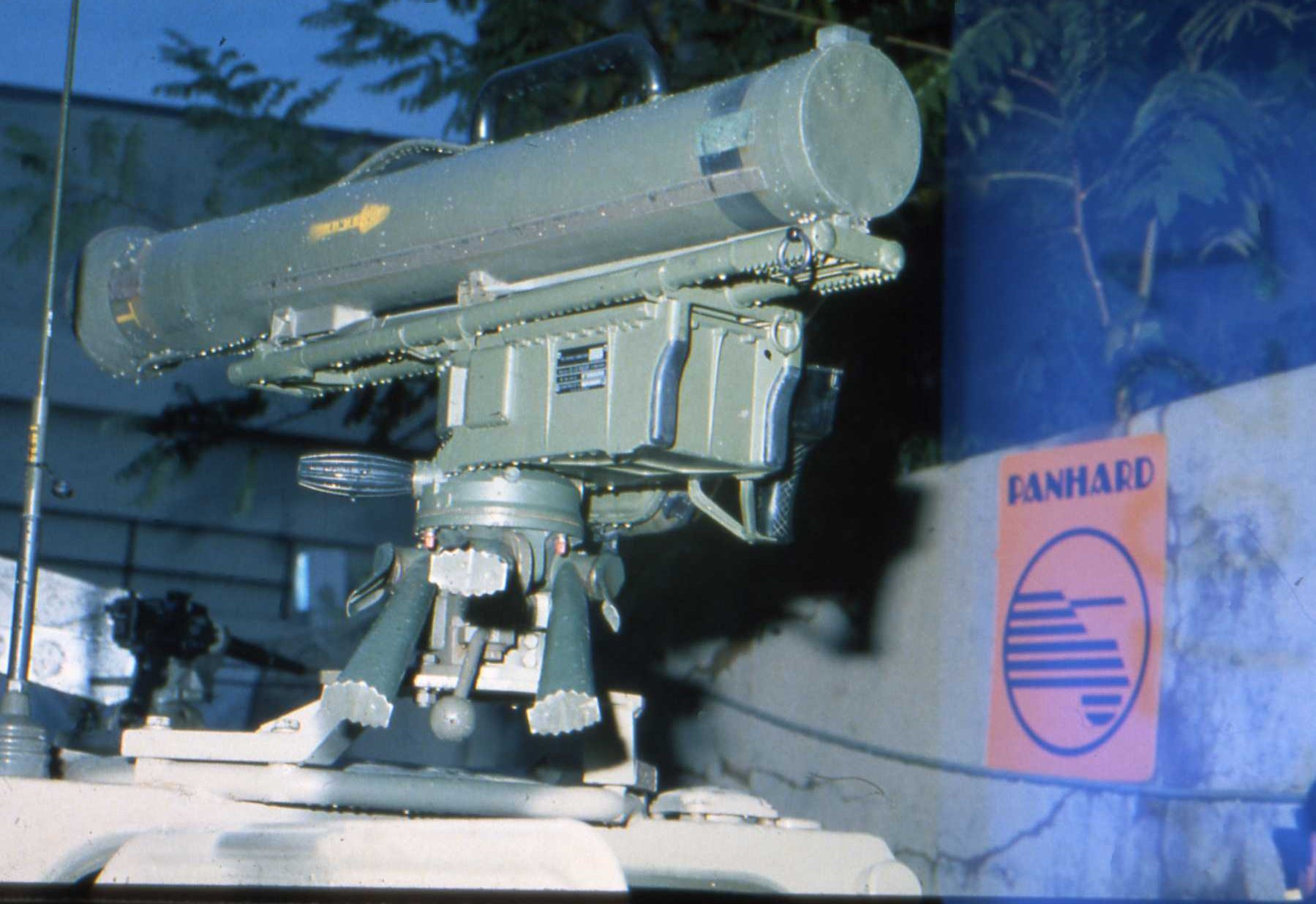 Euromissile MILAN launcher mounted on back of French Panhard VBL 4X4 light reconn vehicle. Photo take at Association of the United States Army 1988 convention vehicle display in parking lot.